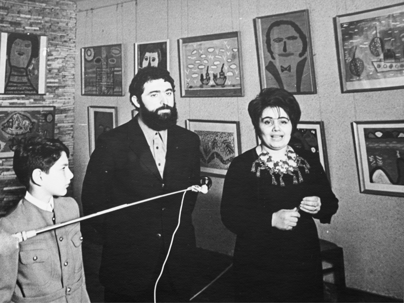 Henrik Igityan and Janna Aghamiryan at the opening of Children's art gallery in Yerevan. Unic children's art gallery in the word.